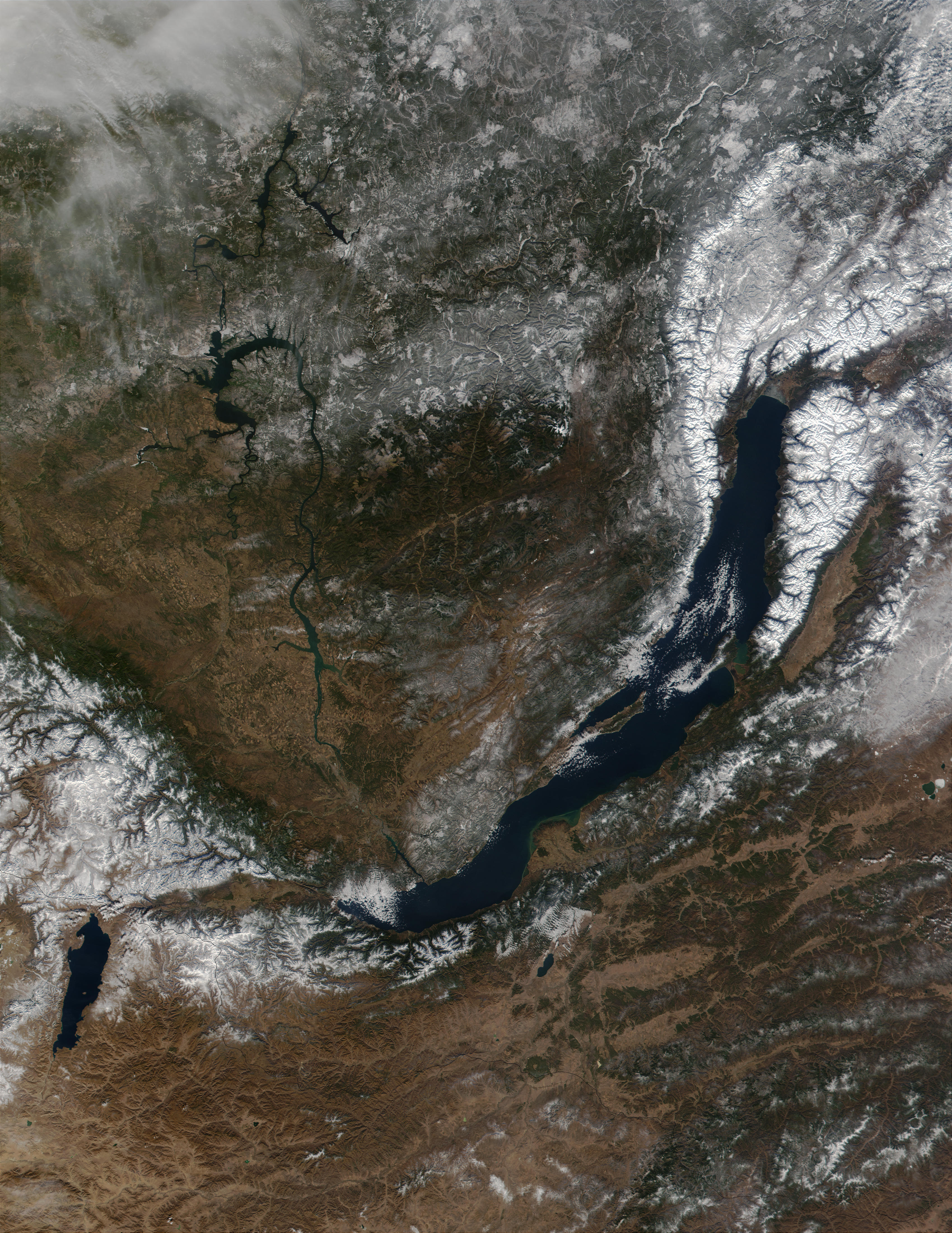 Lake Baikal from satellite Sensor: Terra/MODIS